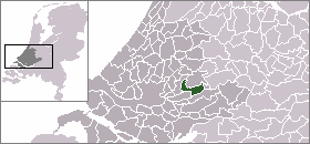 Location of Bergambacht in the Netherlands.